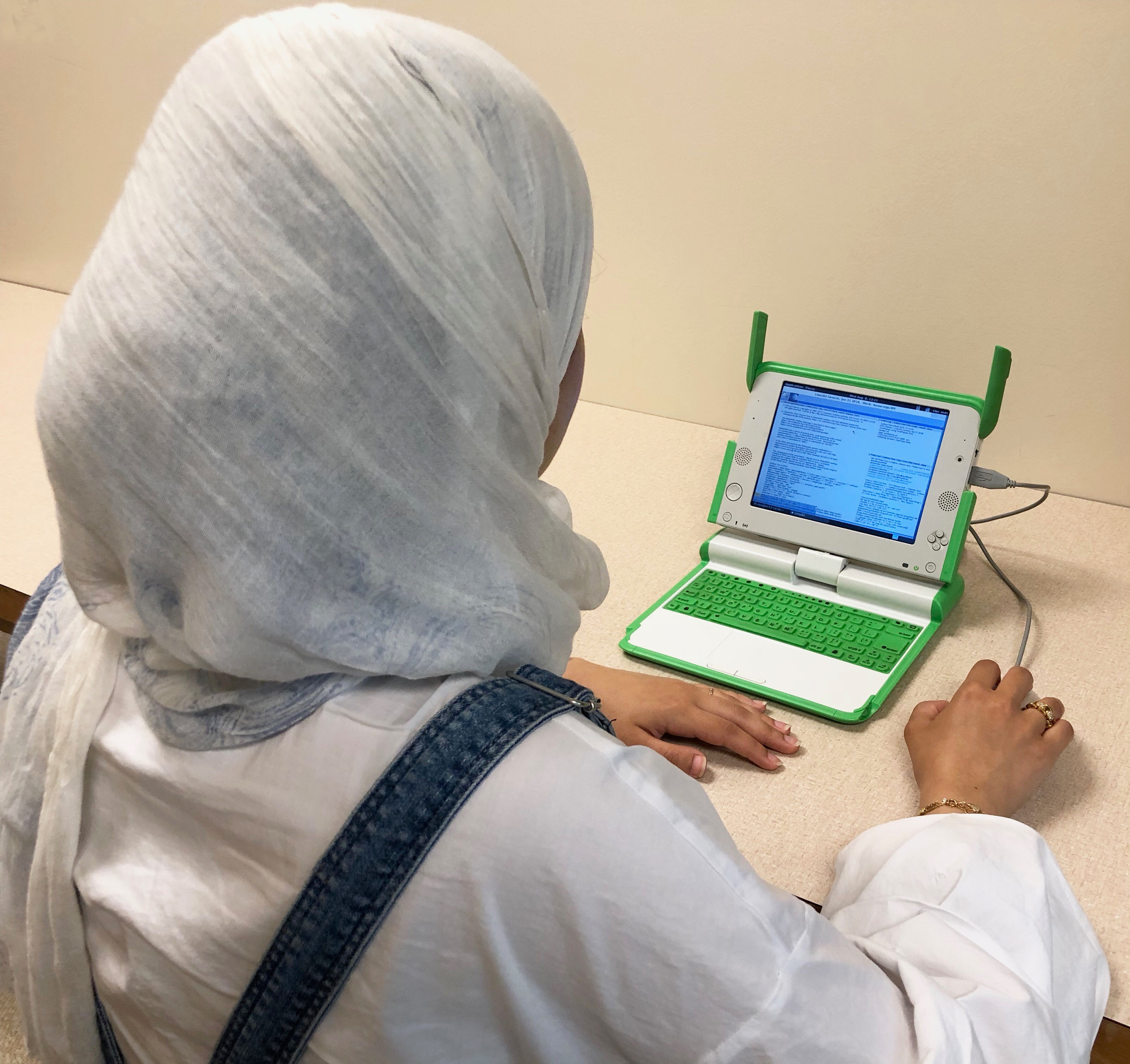 The Oberon subsystem in Unixos on an XO-1.5.